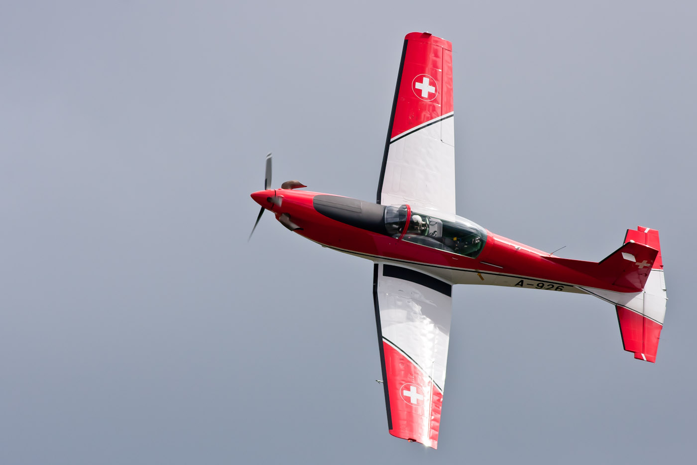 Pilatus PC7 at Malmen Airshow 2012